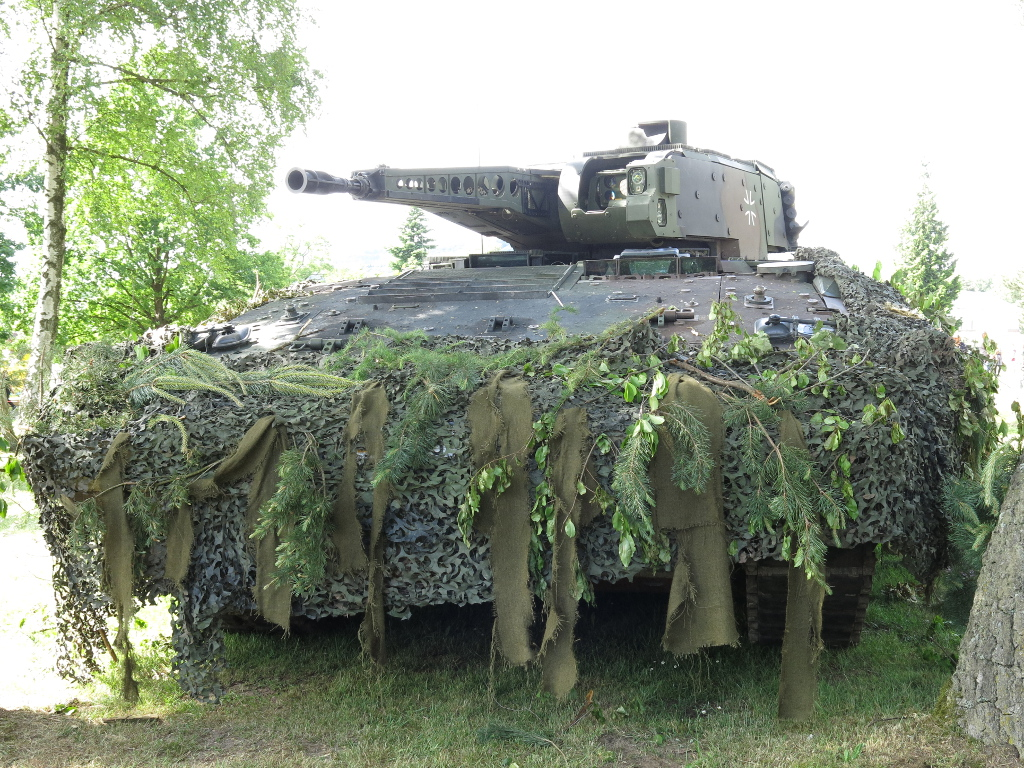 Germany Army IFV Puma camouflaged, cannon without ABM muzzle. Field Marshal Rommel barracks, Augustdorf 2017